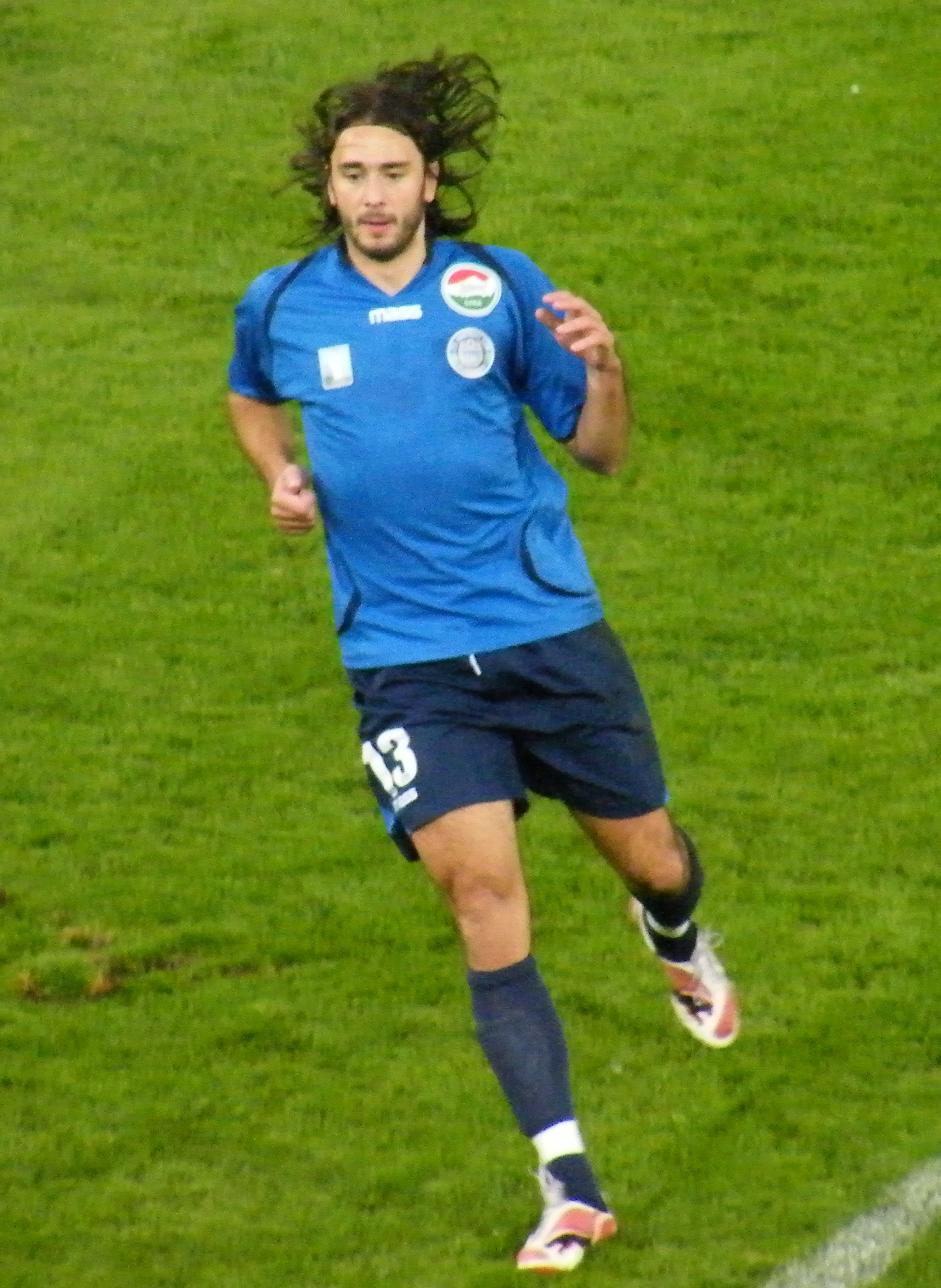 Milan Davidov Serbian association football player.